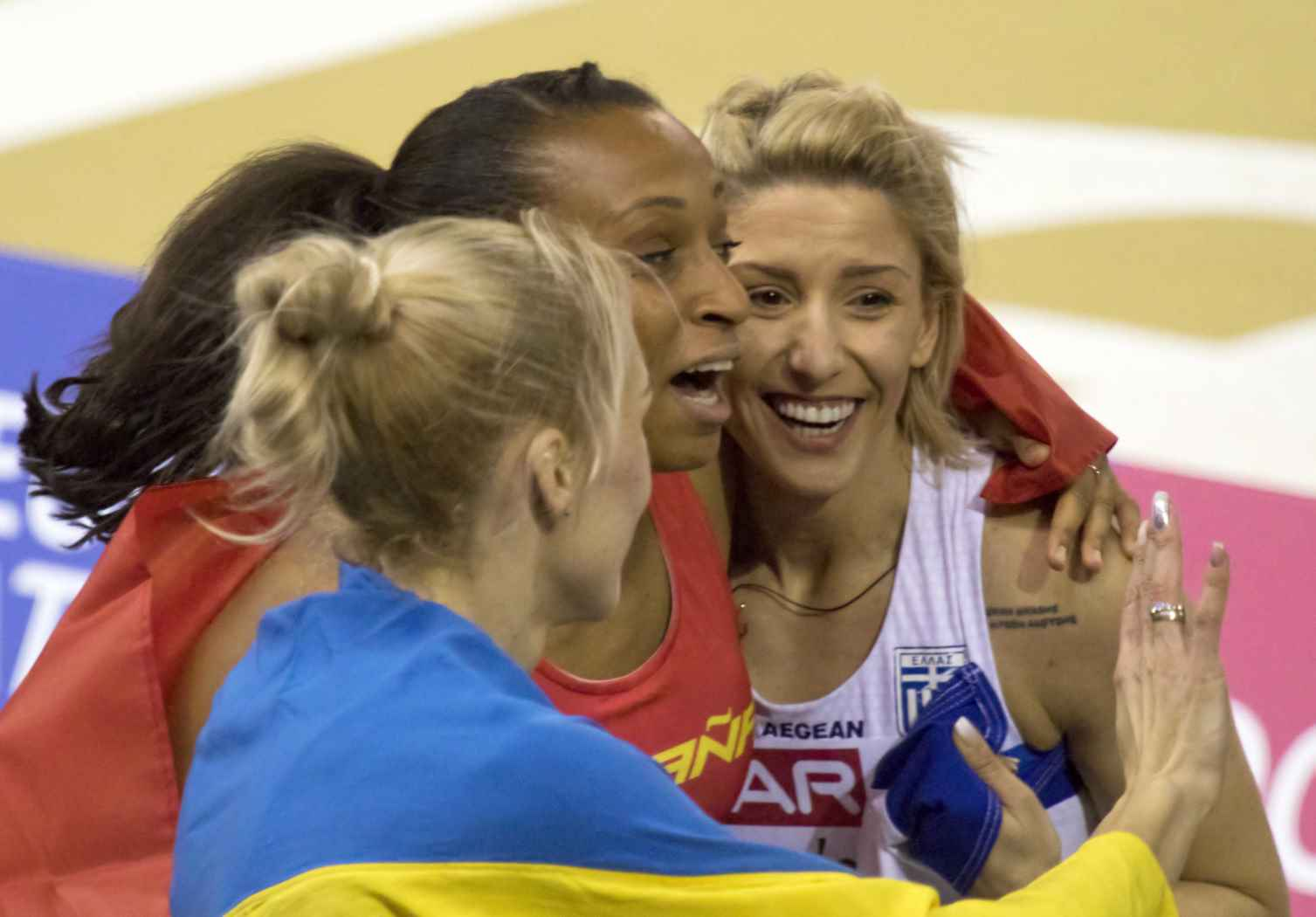 the medalists of the women's triple jump event, Glasgow 2019